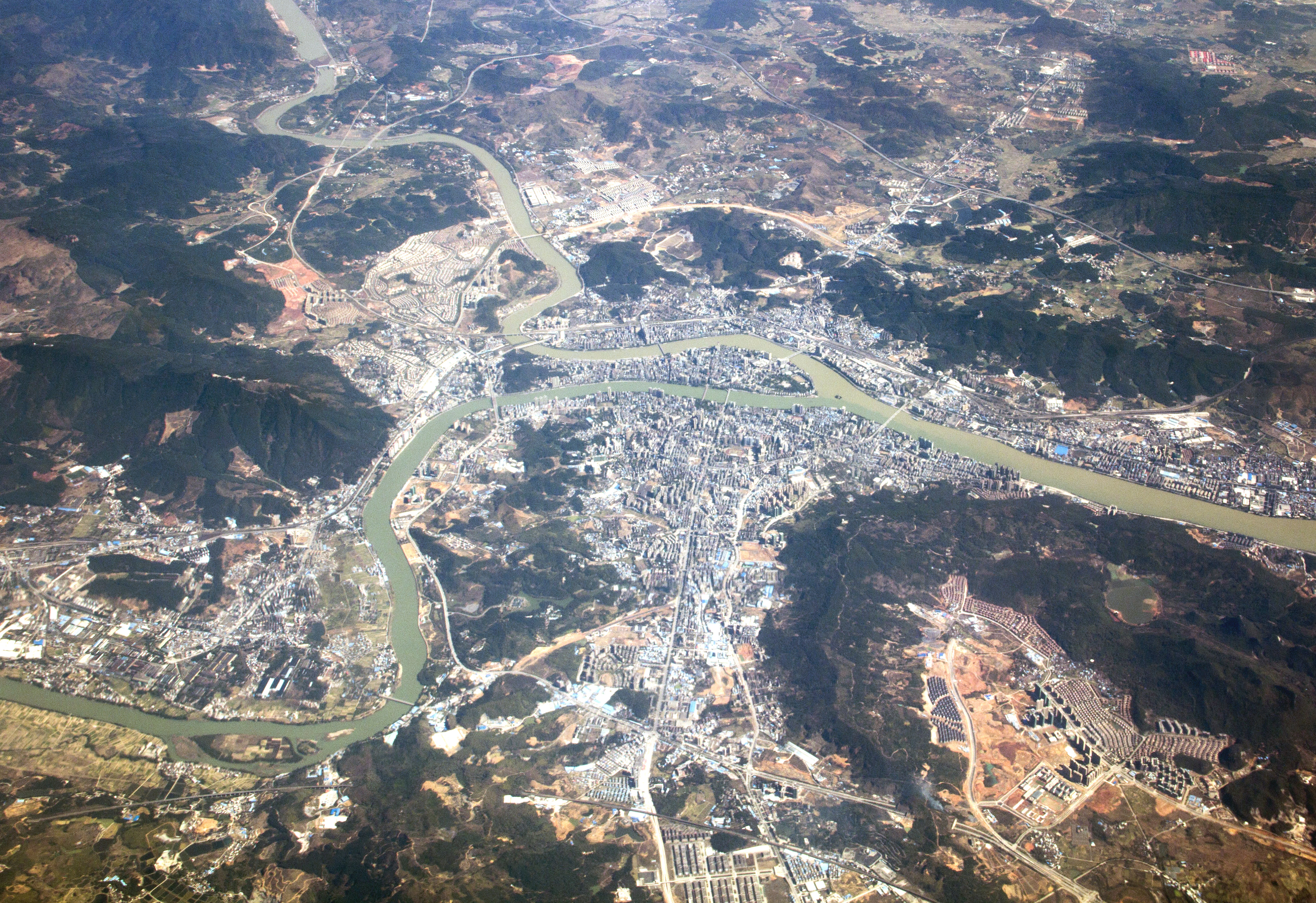 Fly on Shaoguan